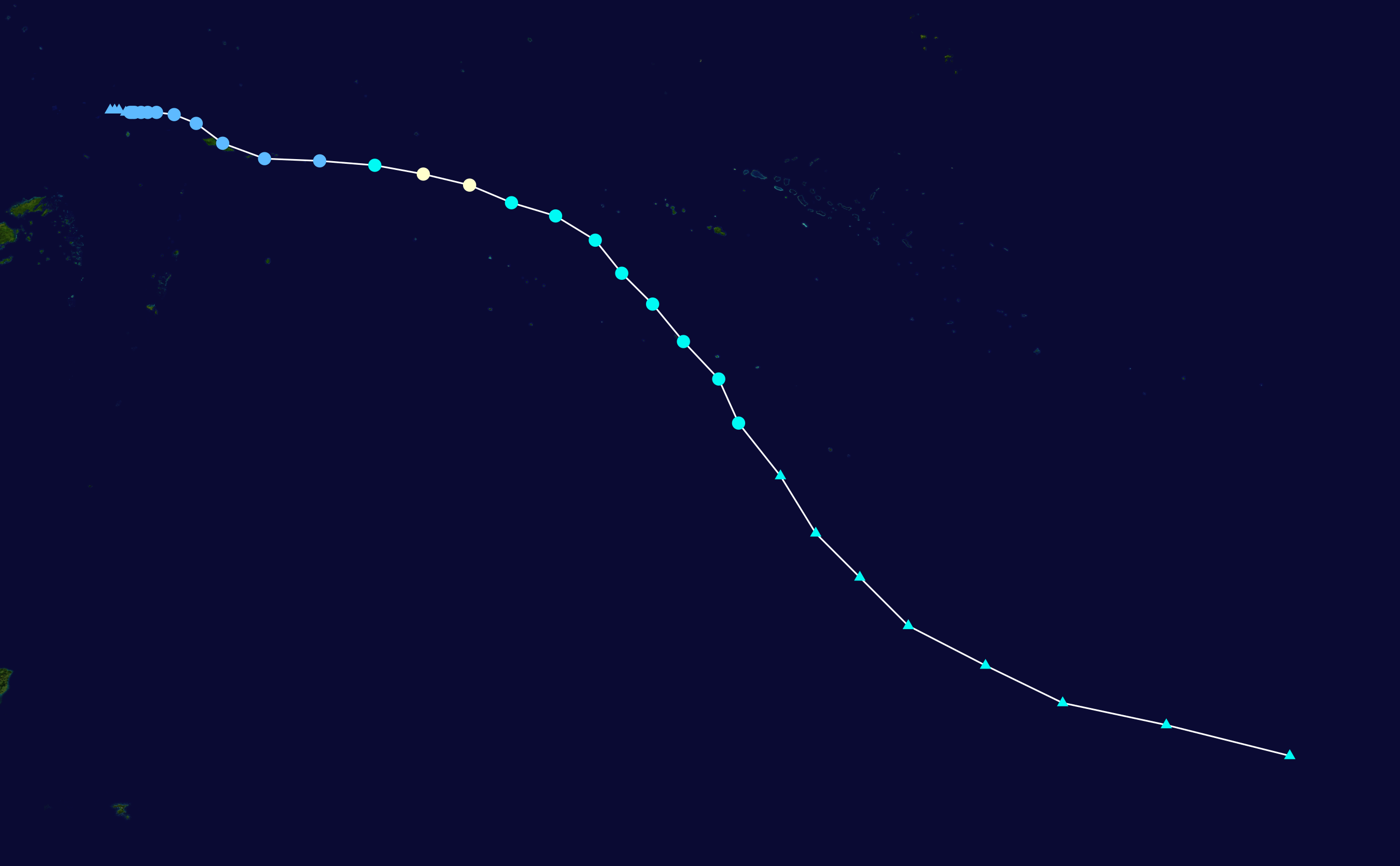 Track map of Tropical Cyclone Arthur of the 2006-07 South Pacific cyclone season. The points show the location of the storm at 6-hour intervals. The colour represents the storm's maximum sustained wind speeds as classified in the Saffir–Simpson scale (see below), and the shape of the data points represent the nature of the storm, according to the legend below. Saffir–Simpson scale Tropical depression≤38 mph≤62 km/h Category 3111–129 mph178–208 km/h Tropical storm39–73 mph63–118 km/h Category 4130–156 mph209–251 km/h Category 174–95 mph119–153 km/h Category 5≥157 mph≥252 km/h Category 296–110 mph154–177 km/h Unknown Storm type Tropical cyclone Subtropical cyclone Extratropical cyclone / Remnant low / Tropical disturbance / Monsoon depression